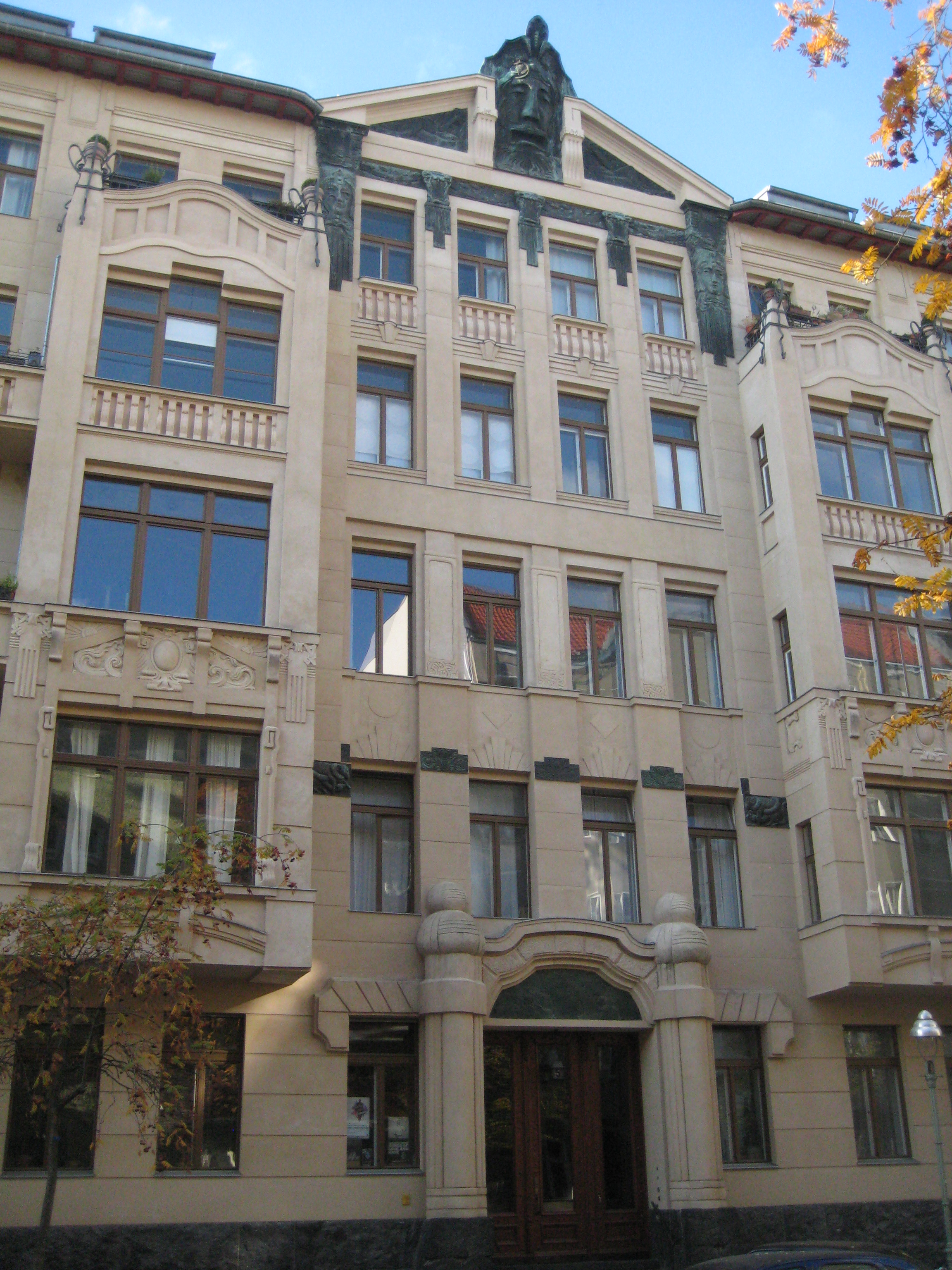 apartment building in Berlin-Moabit, Thomasiusstraße 5; built in 1902 by architect Hans Landé; listed monument